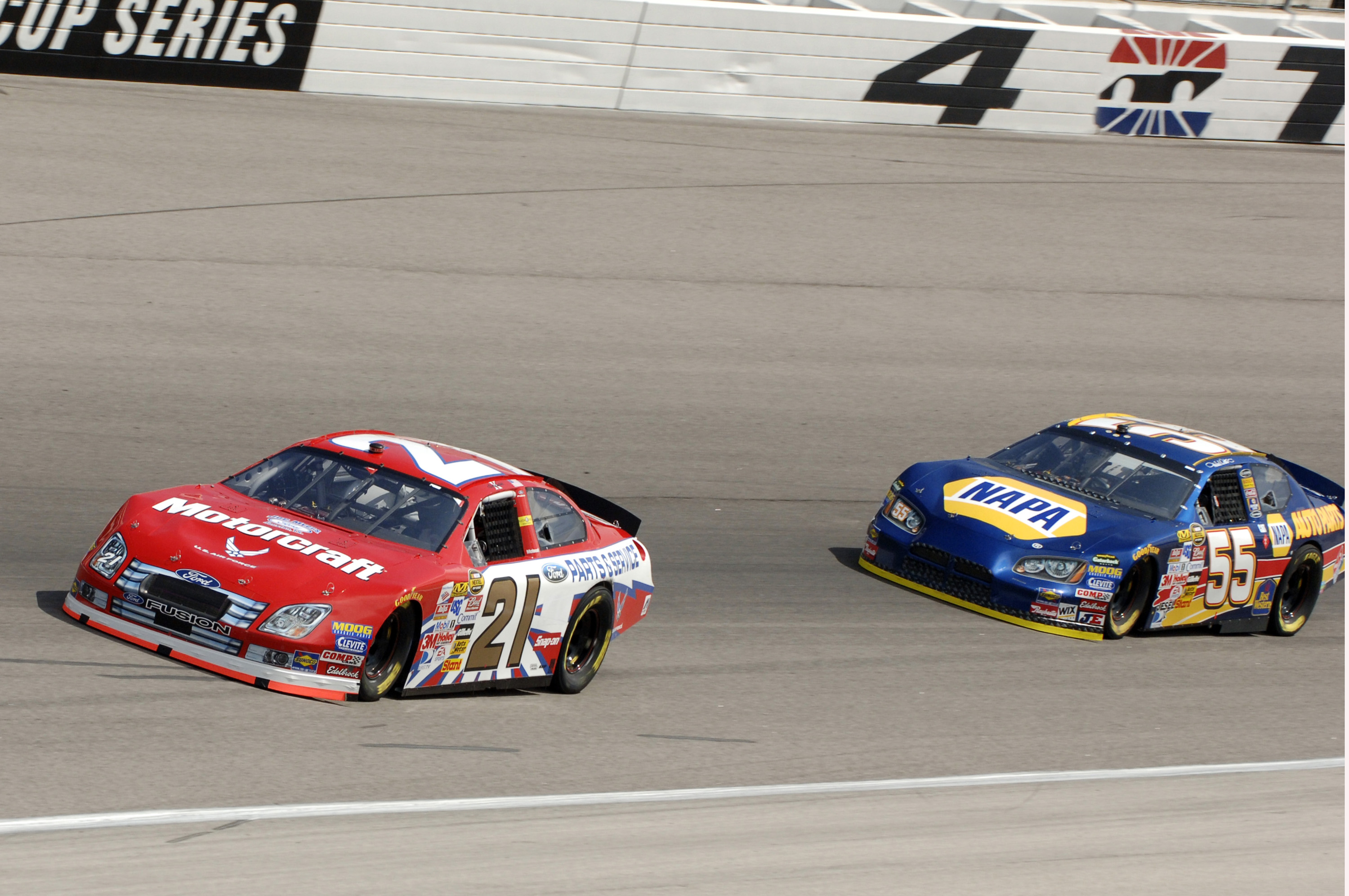 Ken Schrader #21 and Michael Waltrip #55 in the 2006 NASCAR NEXTEL Cup practice session at Texas Motor Speedway